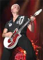 Paul Crook, 2007, with his Brian May signature guitar